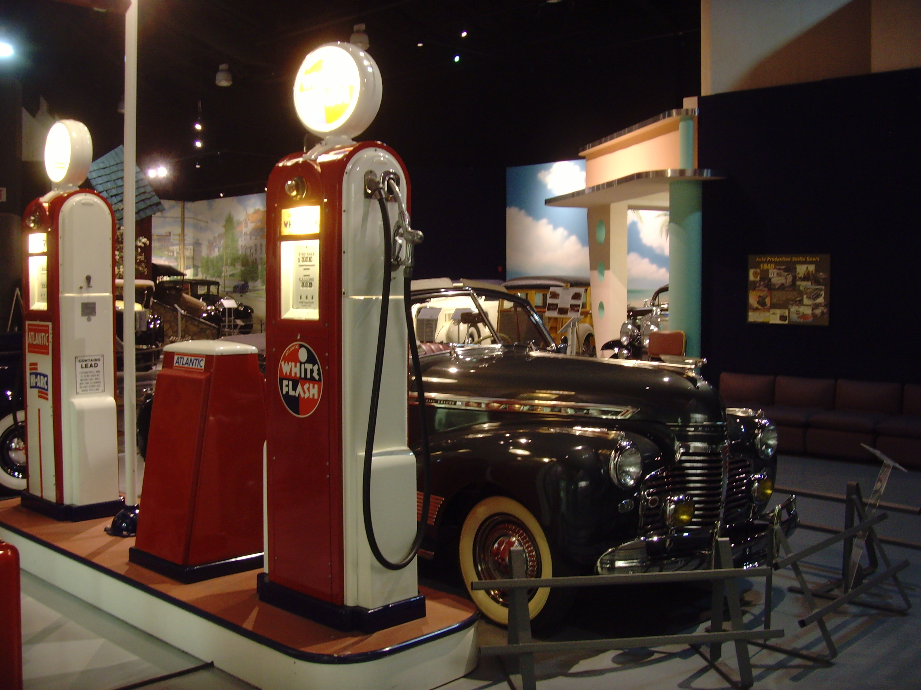 0184 Hershey - Antique Automobile Club of America Museum